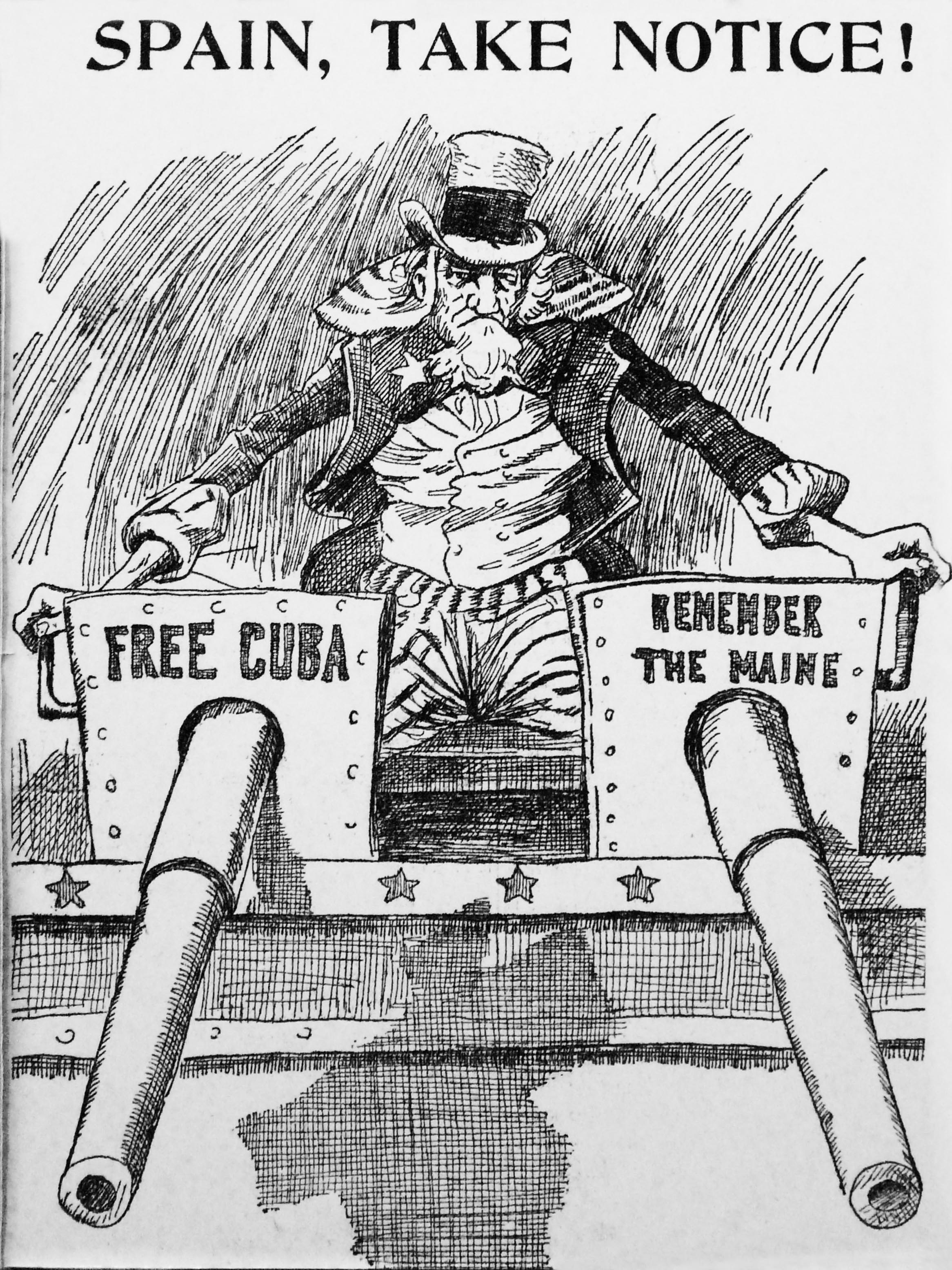 Cartoon of belligerant Uncle Sam placing Spain on notice, ca. 1898 Independence Seaport Museum Photos of many items (mostly, public domain paintings) are followed by photos of official descriptions. Please transfer the description to the photos, updating the description here, and consider deleting the descriptions.